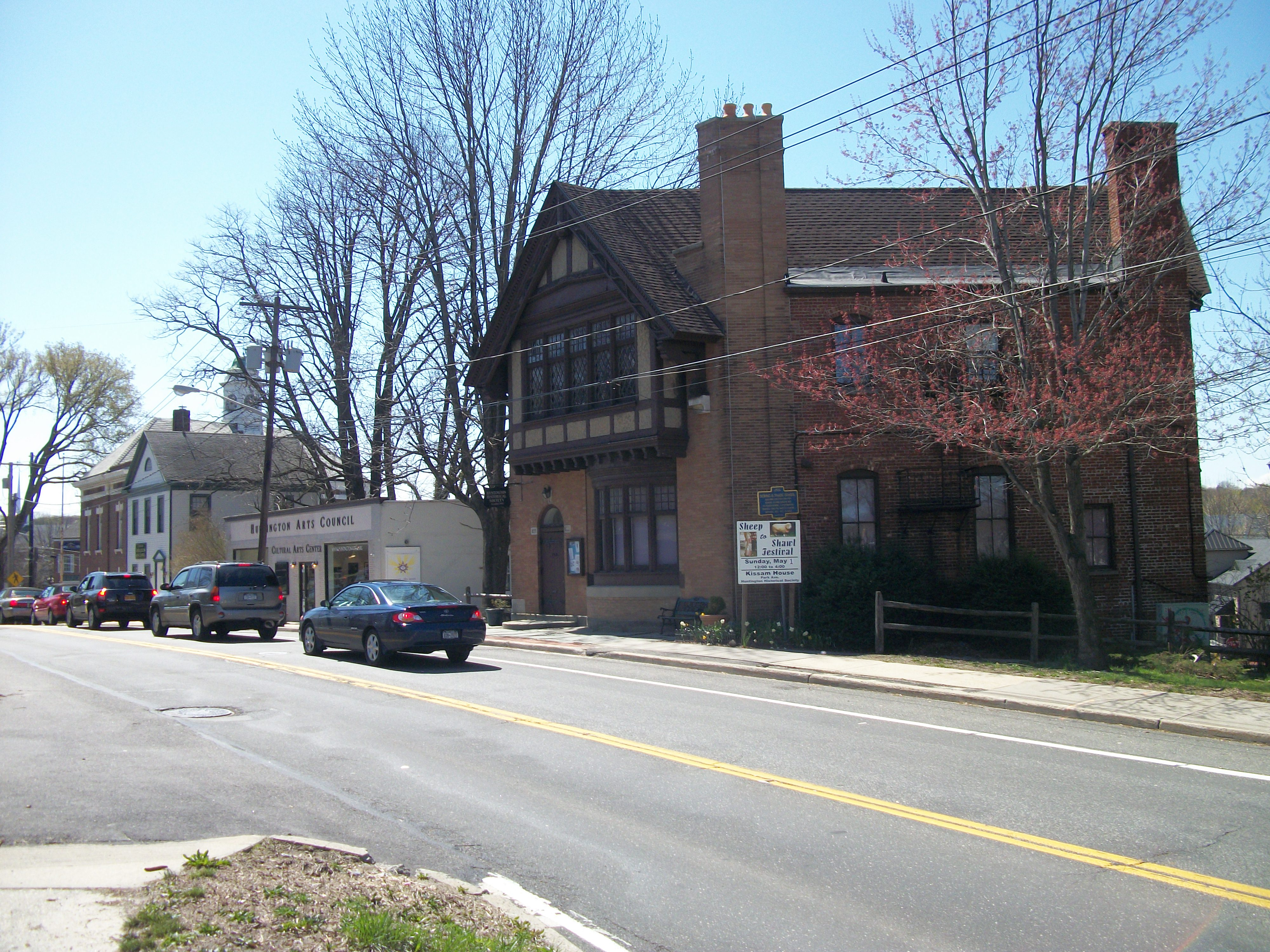 The former Sewing and Trade School on New York State Route 25A in Huntington, New York. Part of both the Old Town Green Historic District and the Old Town Hall Historic District.